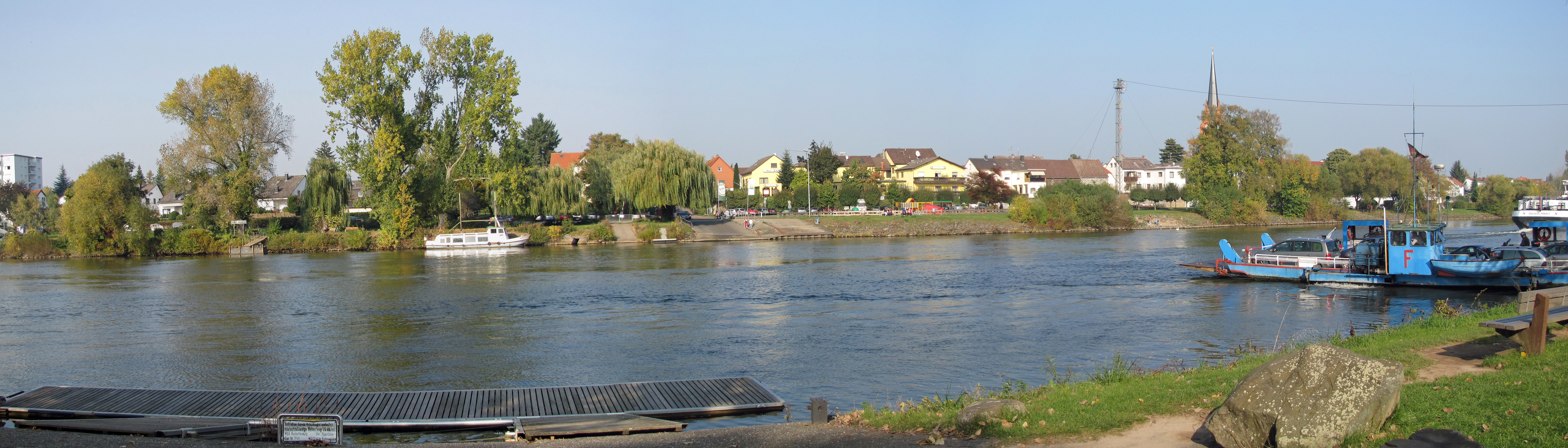 "Main" with ferry, between Maintal-Doernigheim (opposite) and Muehlheim am Main, Hesse, Germany.